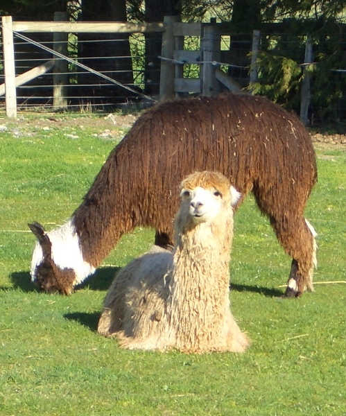 Two young male Suri alpacas